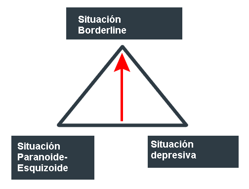 The image illustrates some theory of famous psychologist Melanie Klein, advanced by John Steiner (1979). The theory is about how Borderline Personality Disorder develops and how it interacts with other disorders